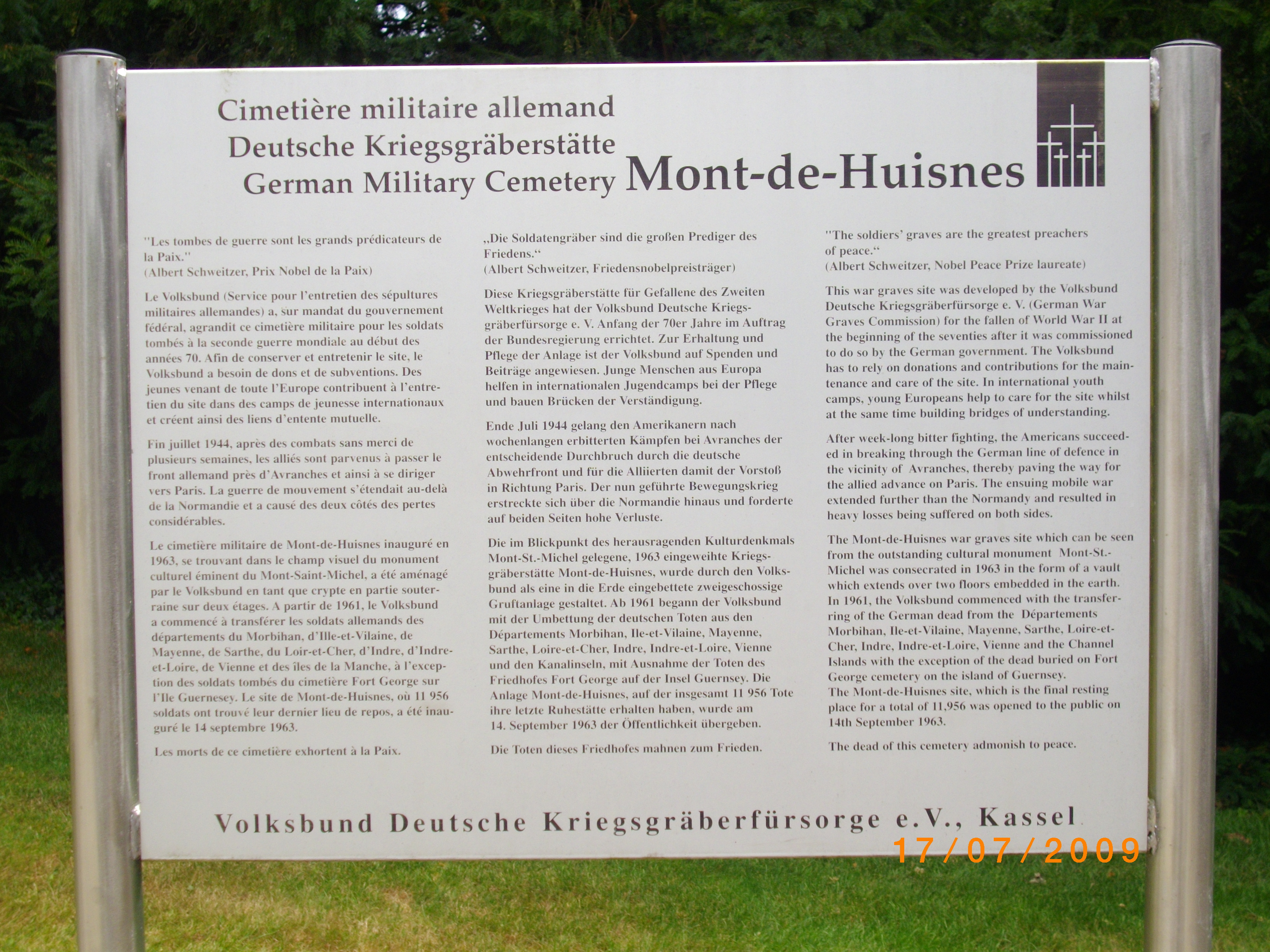 German Military Cemetery. Mont-de-Huisnes